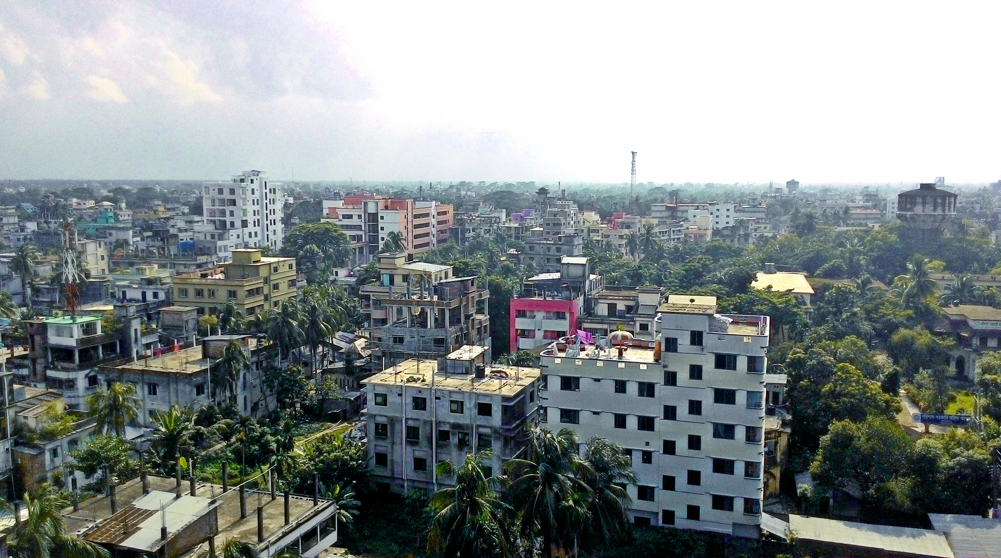 Barisal Cityscape in 2015